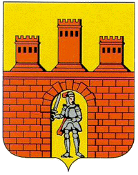 Coat of arm of Bełz city in 1772.